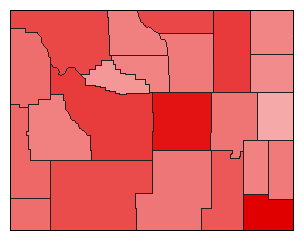 The county results for the 2014 Wyoming Secretary of State election.